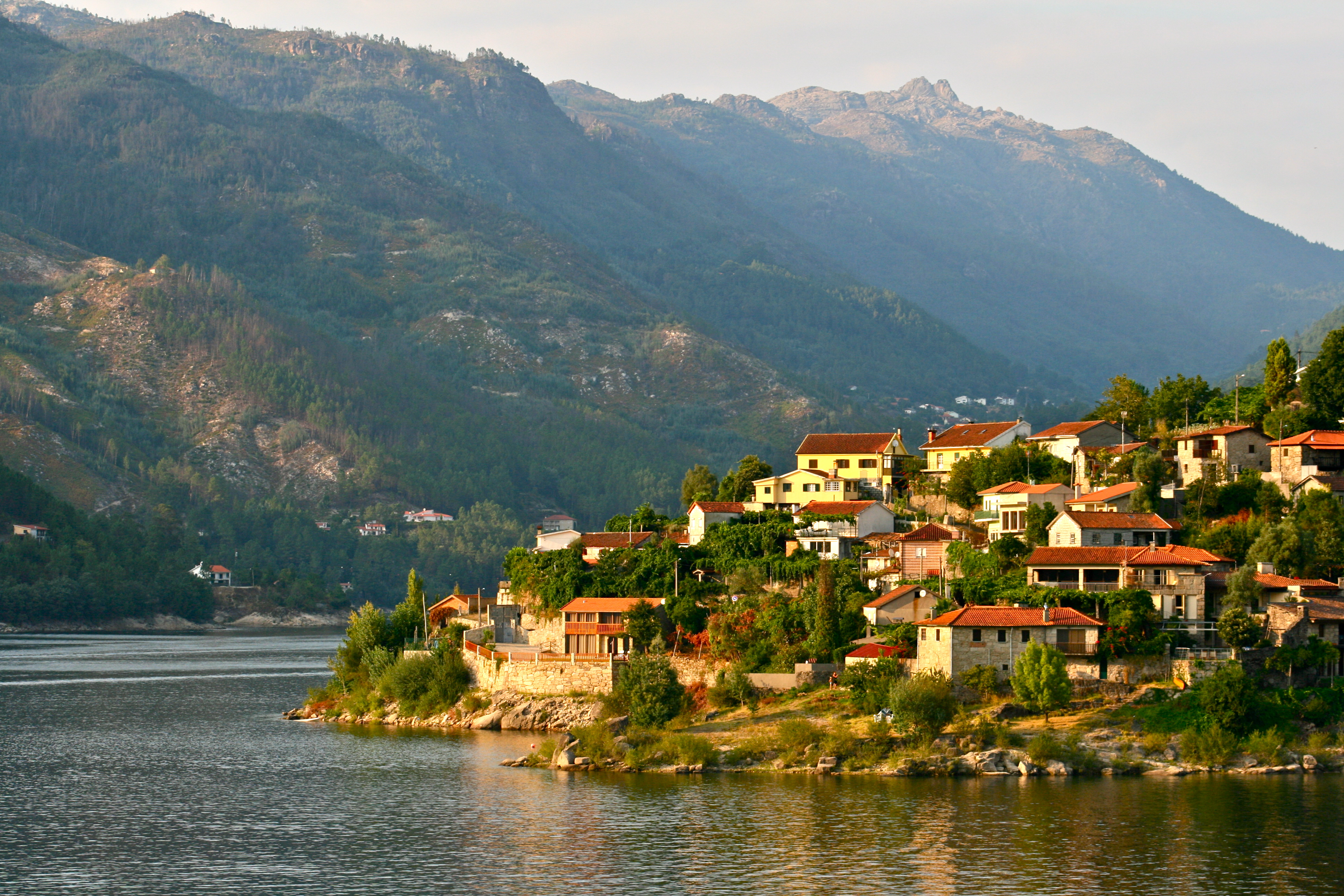 Next to the Cavado River